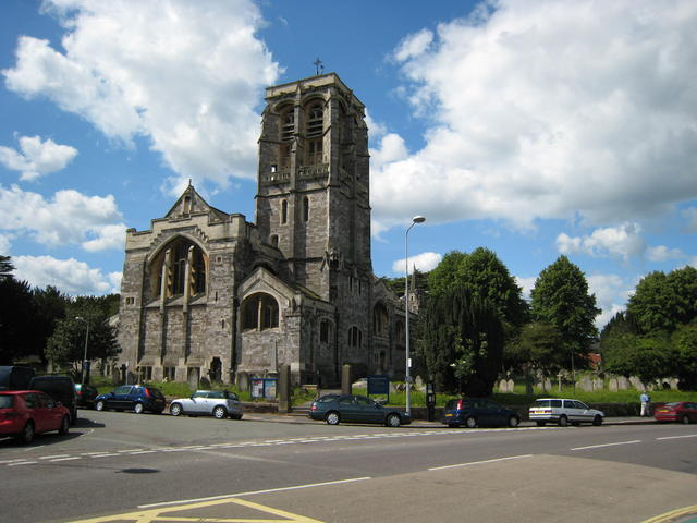 Exeter St David's The church after which this area takes its name.